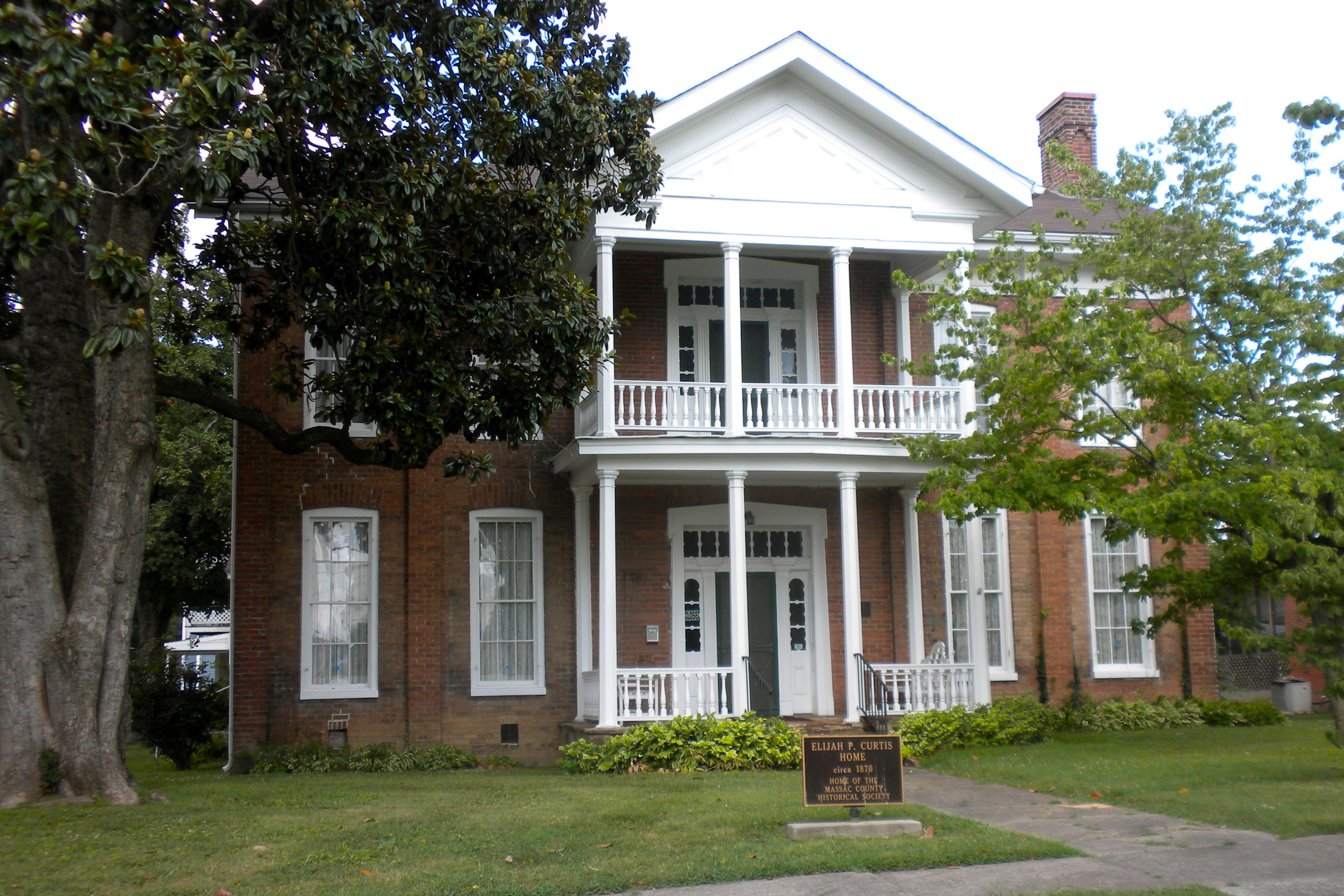 Elijah P. Curtis House on the NRHP since June 9, 1978. At 405 Market St., Metropolis, Illinois (Superman's hometown)